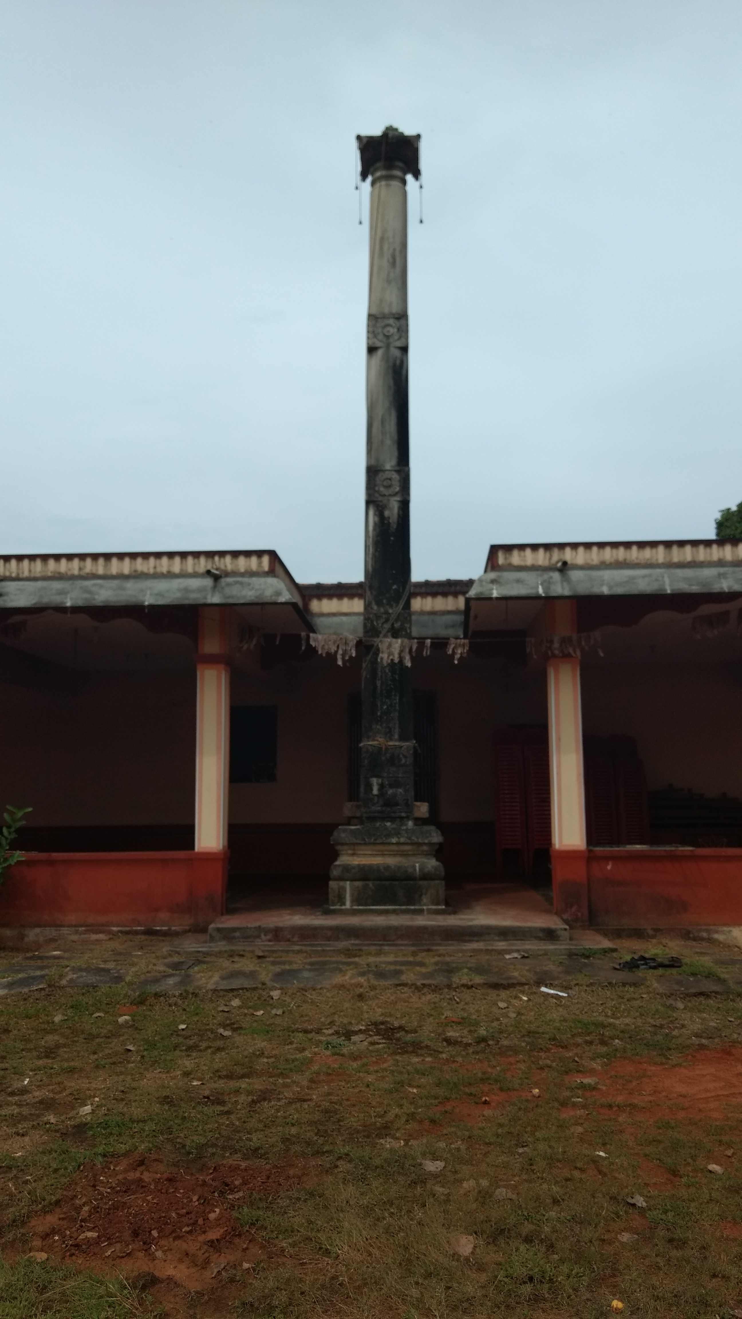 The Mahalingeshwara Temple in Moodubelle, Udupi district, India. The temple has a thousand year old history and was established by an ancestress of the feudal Ballal family of Moodubelle.